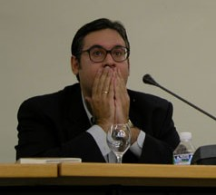 The writter Juan Manuel de Prada in the University of La Rioja (Spain).